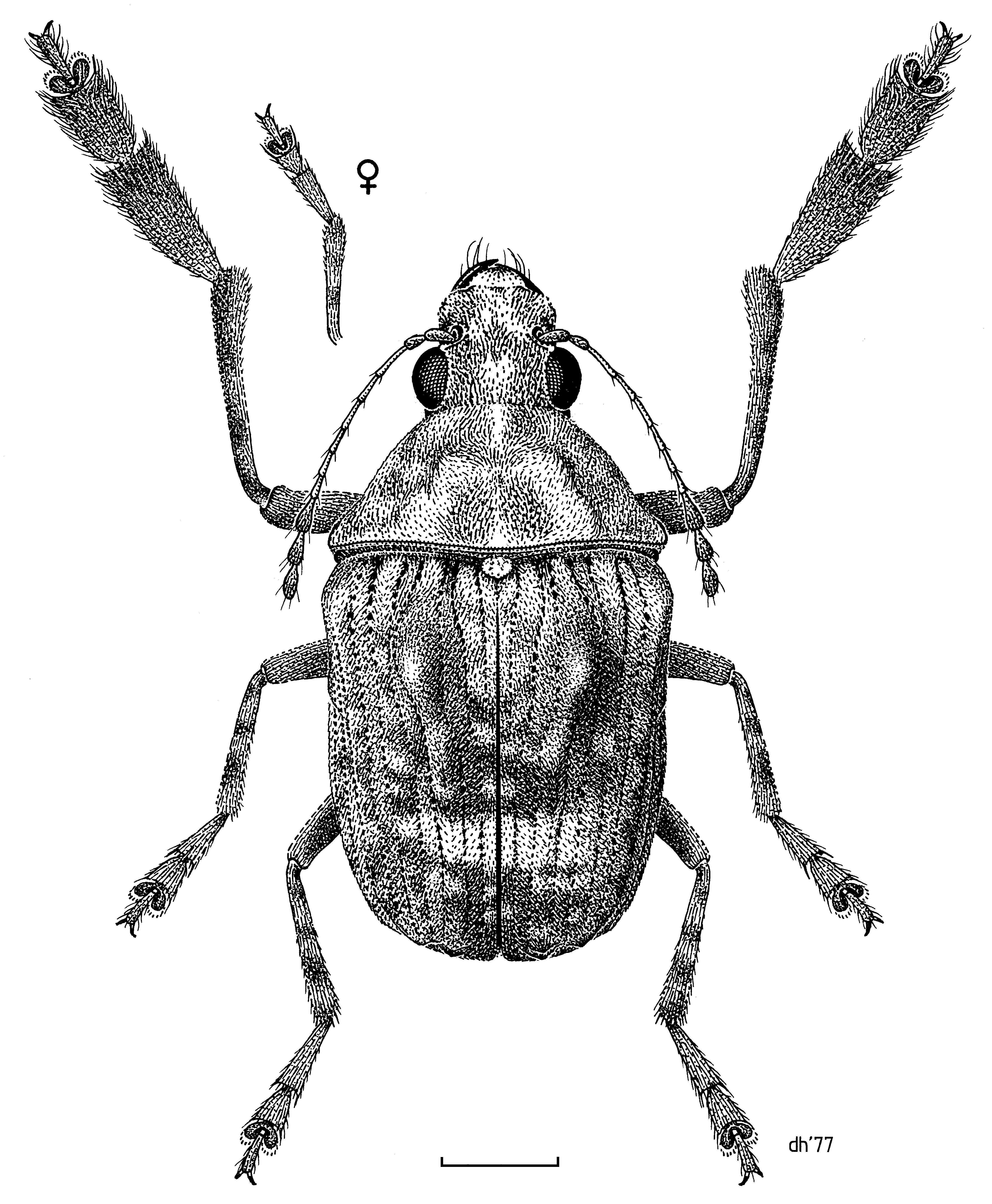 (Coleoptera: Anthribidae) Araecerus palmaris, male illustrated by Des Helmore.